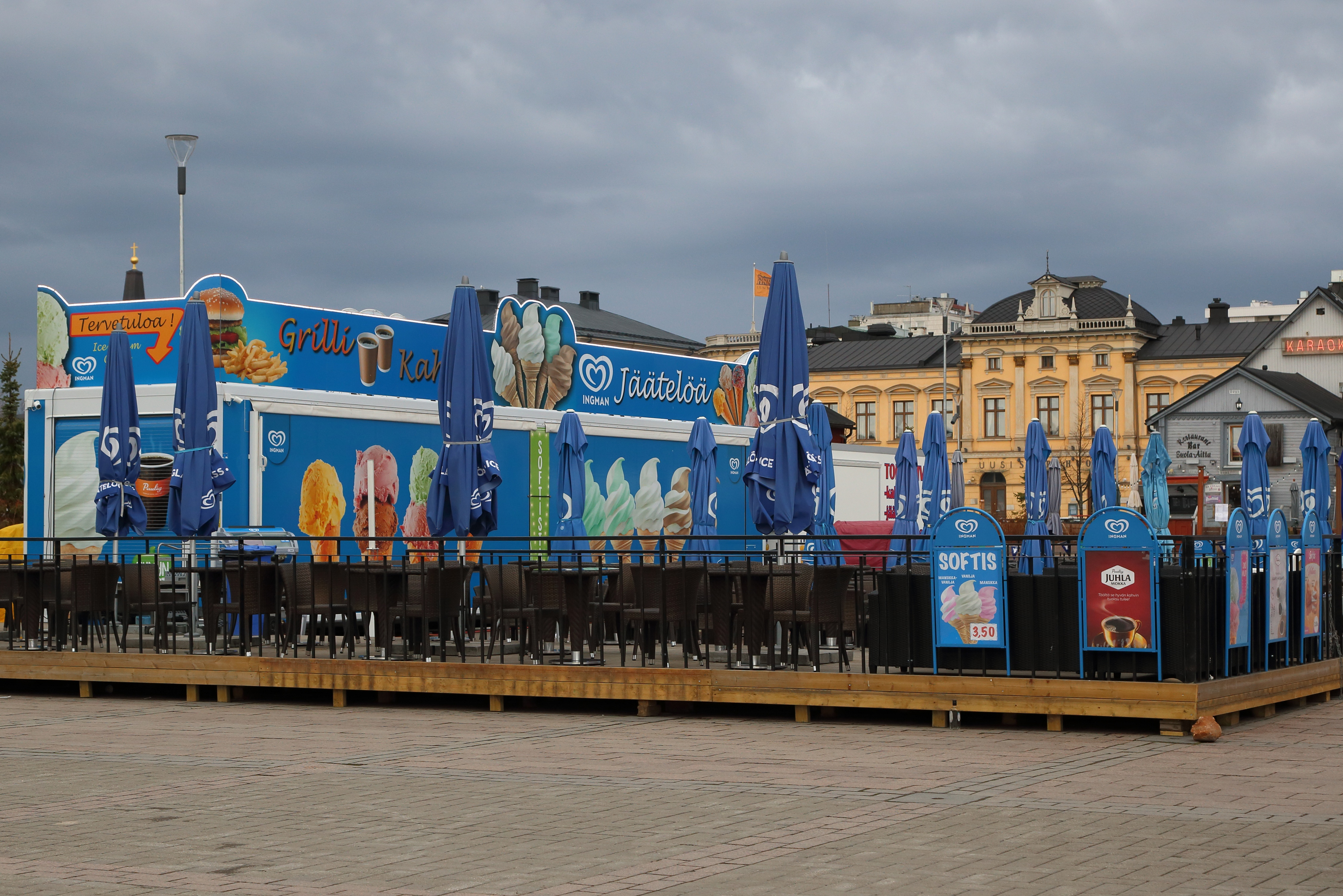 Grillroom/Café/Ice cream kiosk at the Oulu Market Square.